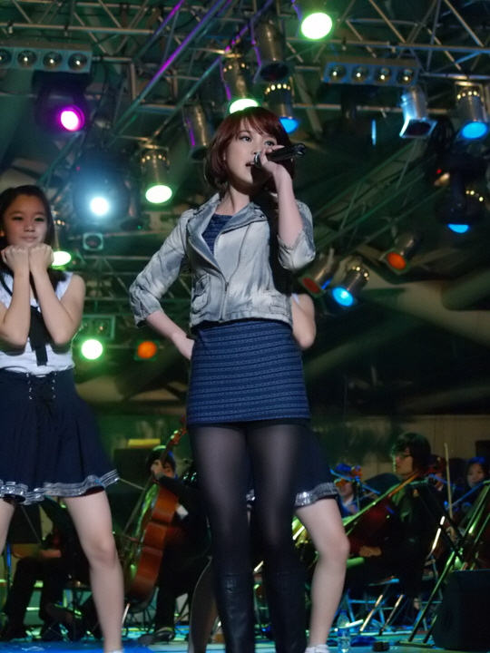 IU, the Korean Singer. Lee JiEun